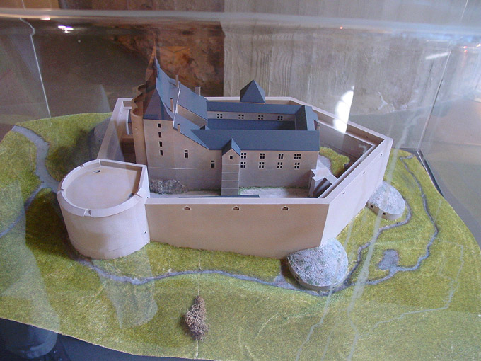 A model of Franchimont Castle as it was after building of the outer wall in the 16th Century. The model is in the exhibition area in the castle artillery tower. Photograph taken by David Edgar on 23rd April 2006.